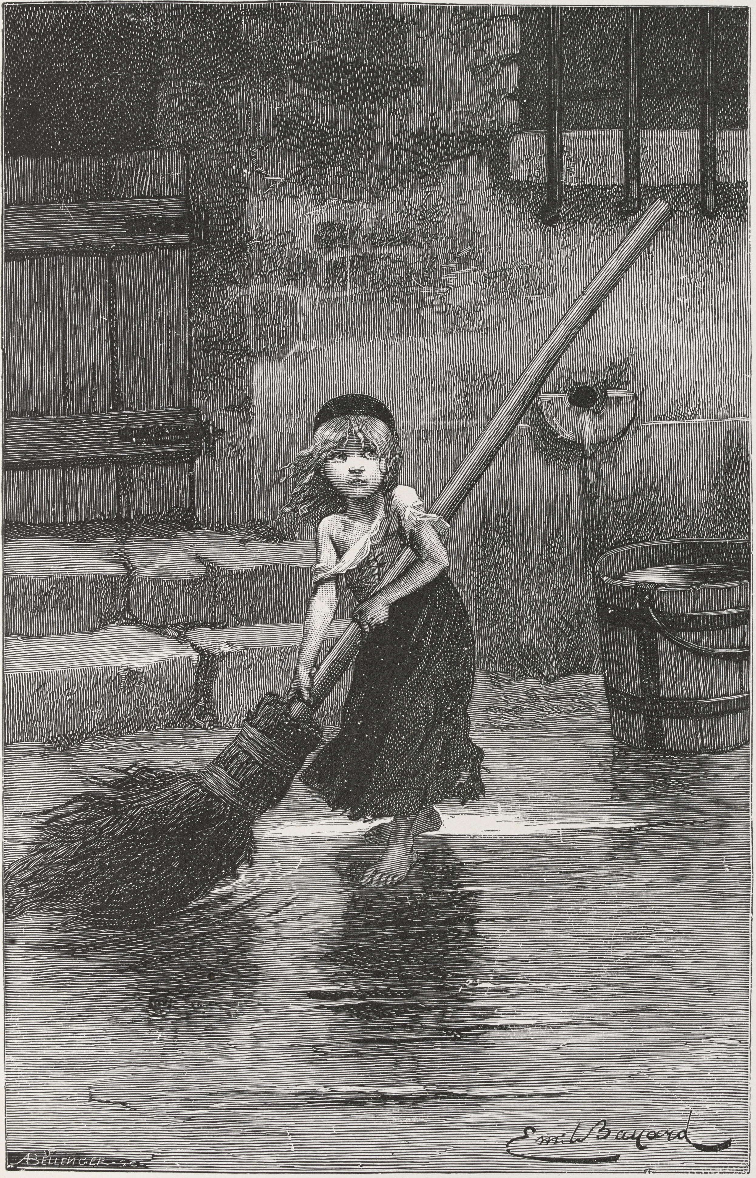 Émile Bayard, Cosette sweeping, 1862, reproduced in Victor Hugo, Les Misérables (London, G. Routledge and Sons), 1887. Rare Books Collection, State Library of Victoria.